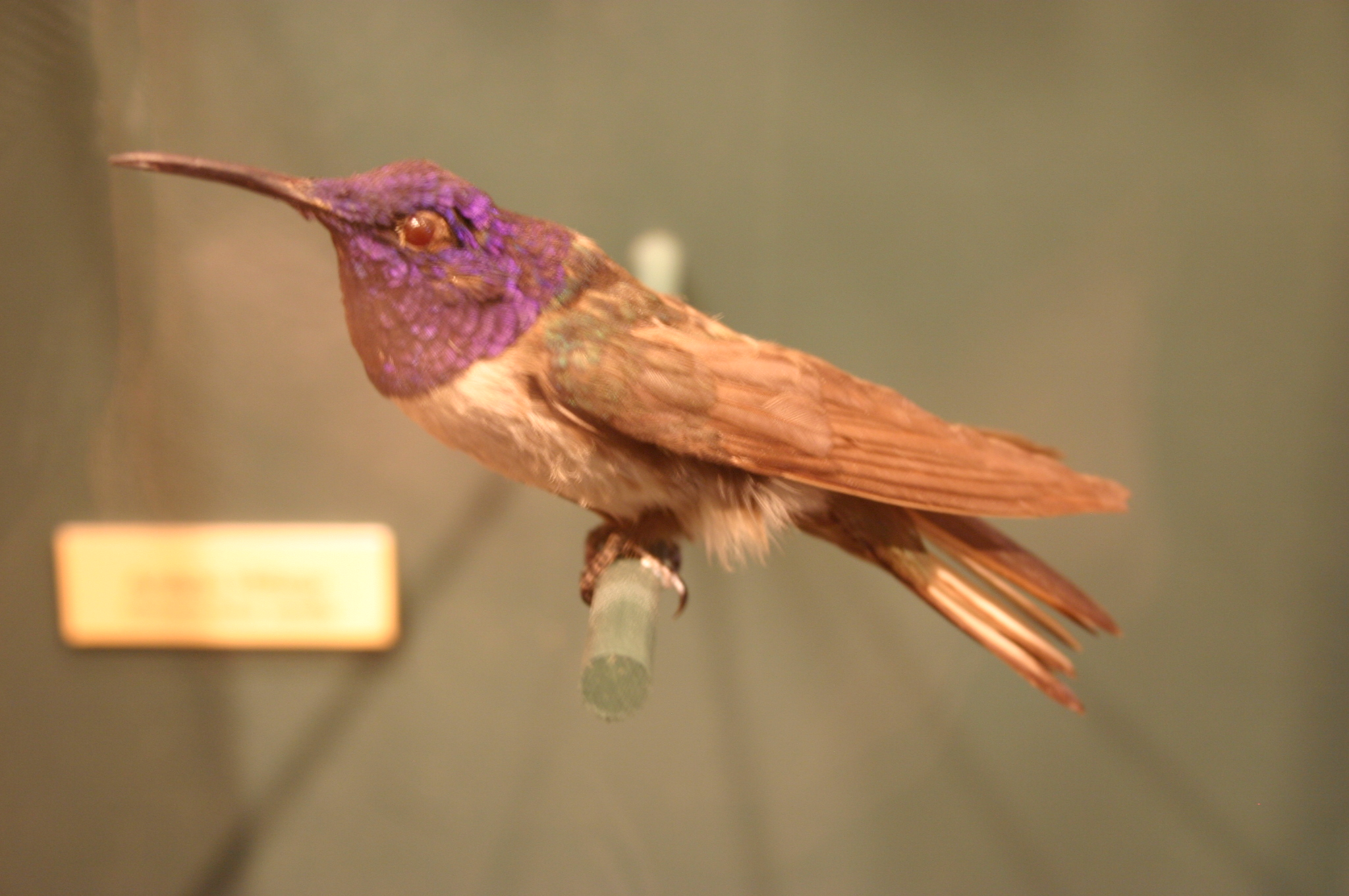 Stuffed male Oreotrochilus chimborazo (formerly treated as a subspecies of O. estella) at North Carolina Museum of Natural Sciences